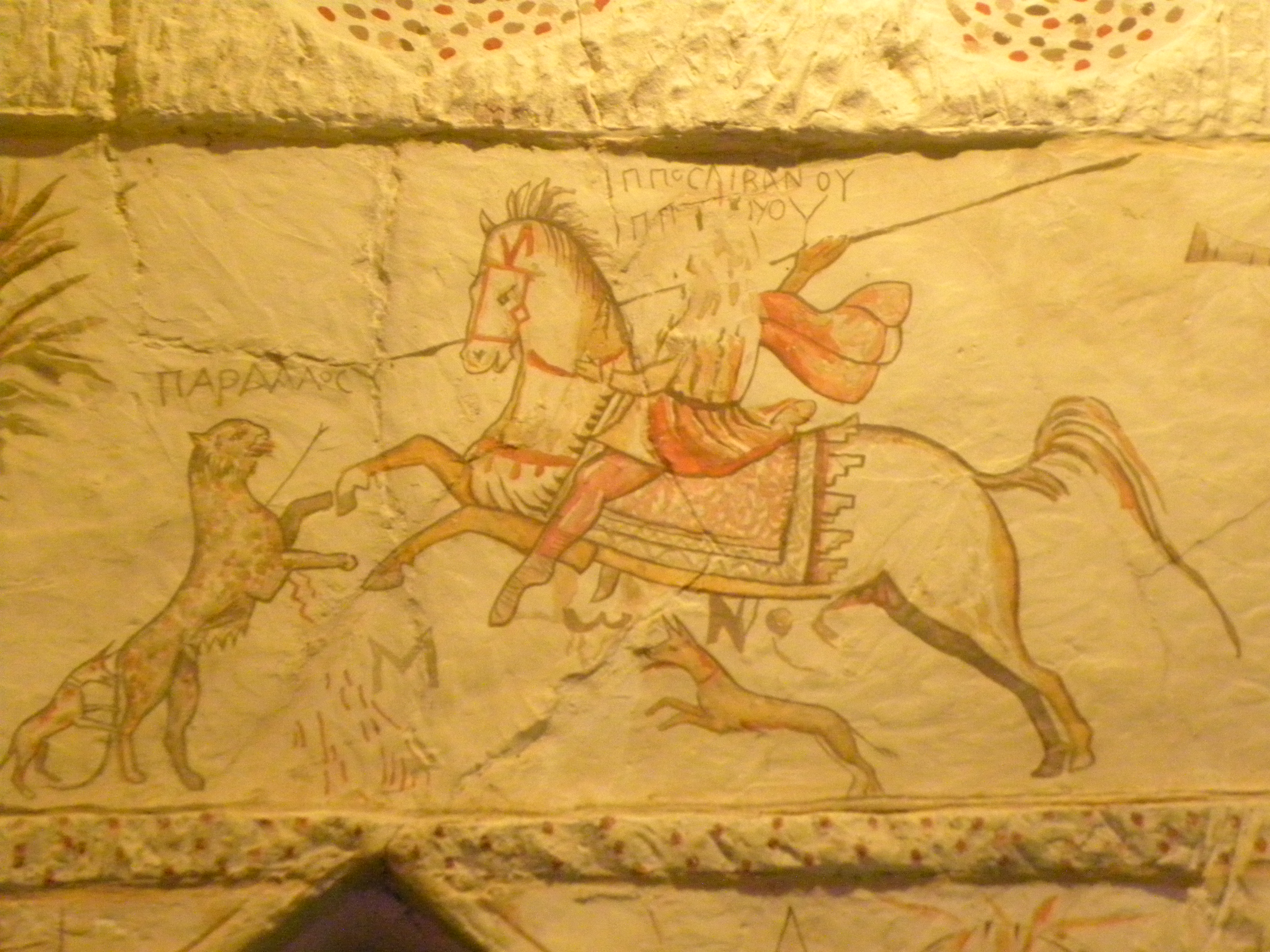 Hunting mural scene on the Hellenistic tomb paintings at Sidonian Burial Caves: This tomb complex is cut into the chalk hills of the Judean Shephelah. The necropolis and it's paintings date to the 3rd century BCE and illustrates the presence of highly hellenized culture in the century following Alexander's conquest of the region. This section depicts a mounted hunter with his dog killing a leopard with a lance.